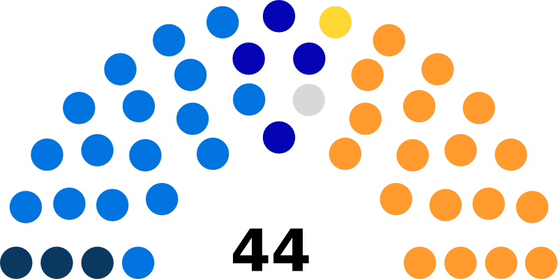 Seats diagramme of Swiss Council of States (1881)